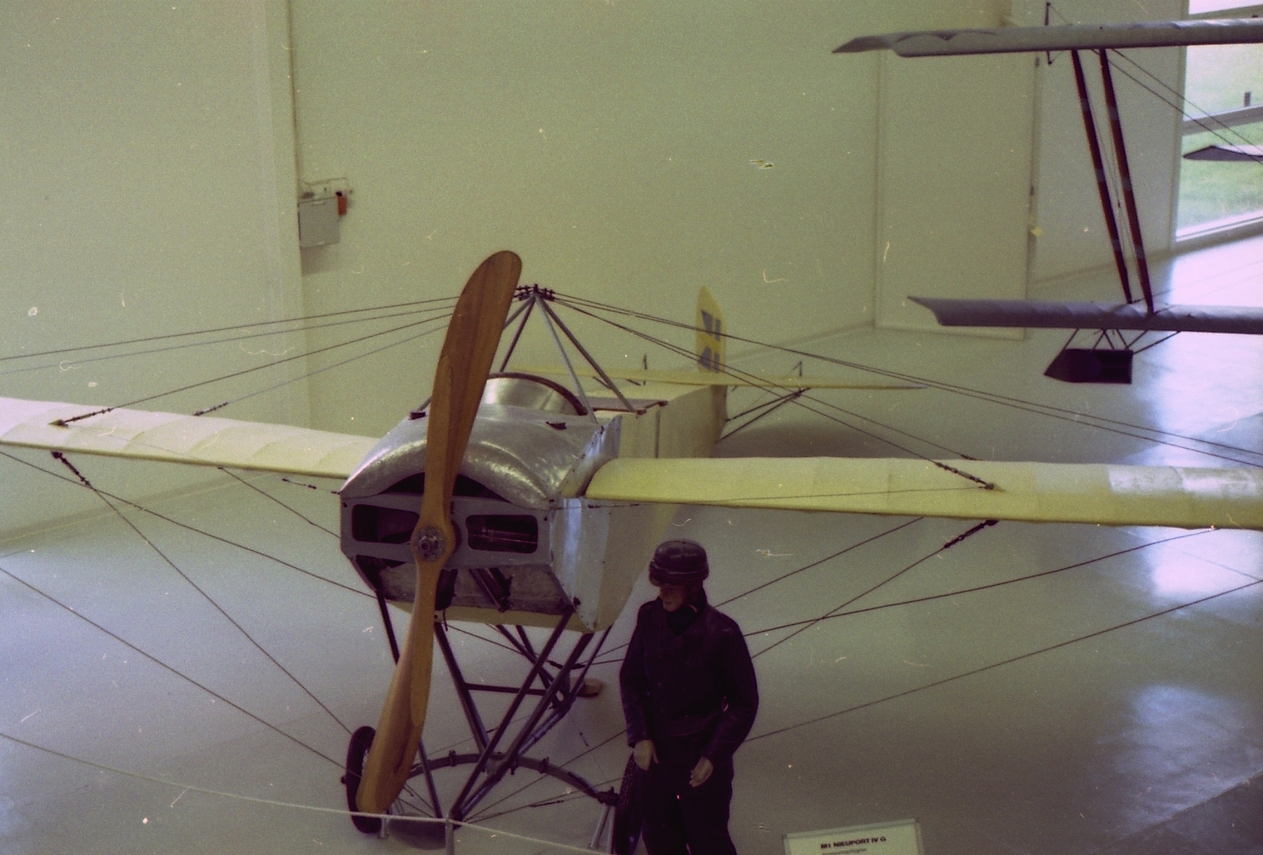 Nieuport IVG in the Swedish AF museum at Malmen near Linköping, Summer 1988